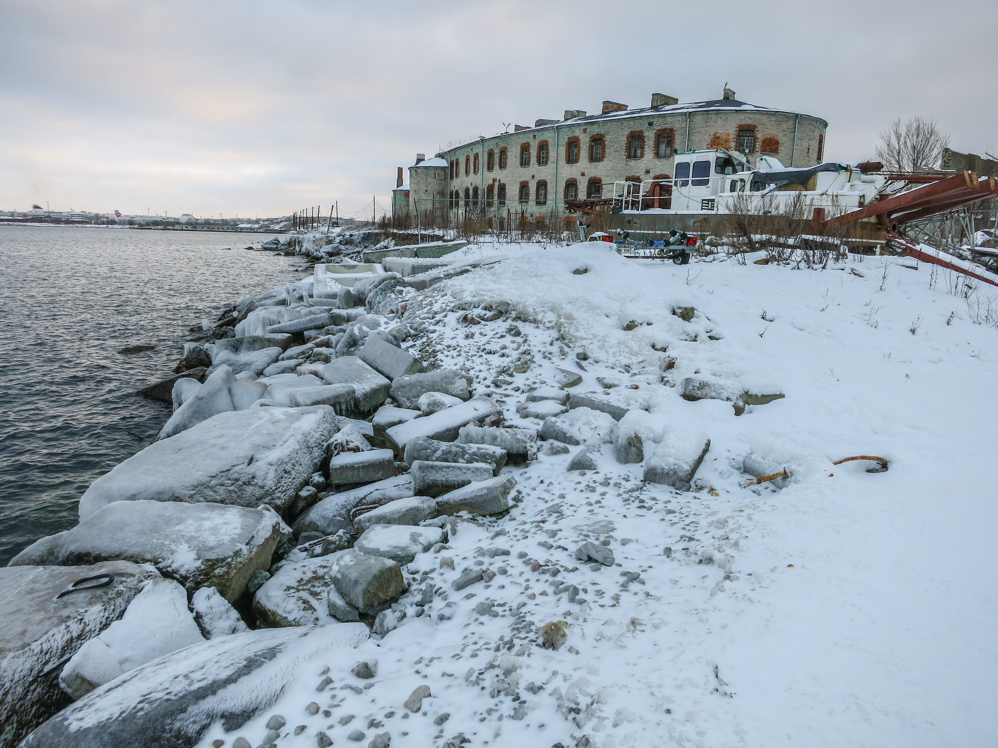 View to previous Patarei prison in Tallinn (Estonia) from northwest.